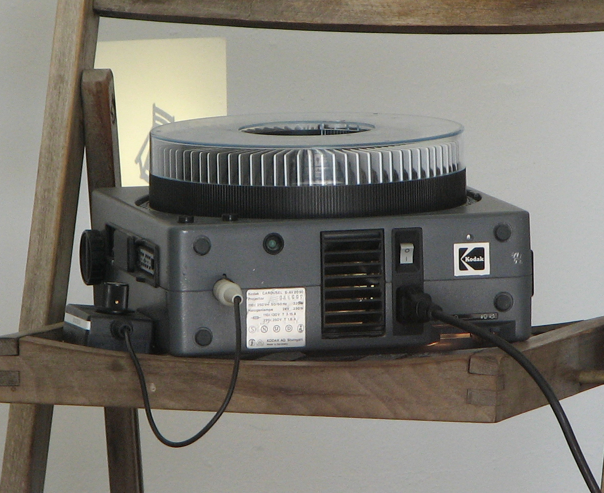 Carousel slide projector (rear view).